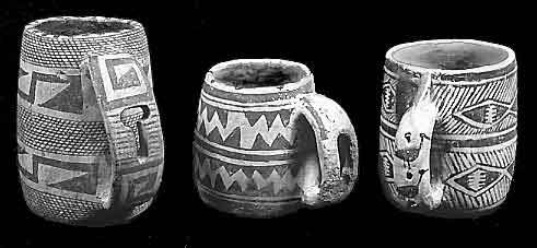 Anasazi mugs. Original caption: “Prehistoric mugs with handles are found only in the immediate area of the Four Corners, especially in Southwest Colorado. The mugs are almost always black-on-white, and date between AD 1000 and 1280. Note the T-shaped cut-out designs on the left two mugs' handles. Ancestral Puebloan doorways often have this same shape, but its meaning is unknown. Some mugs have false bottoms with clay beads inside-- perhaps these noisemakers called attention to an empty mug during feasts.”